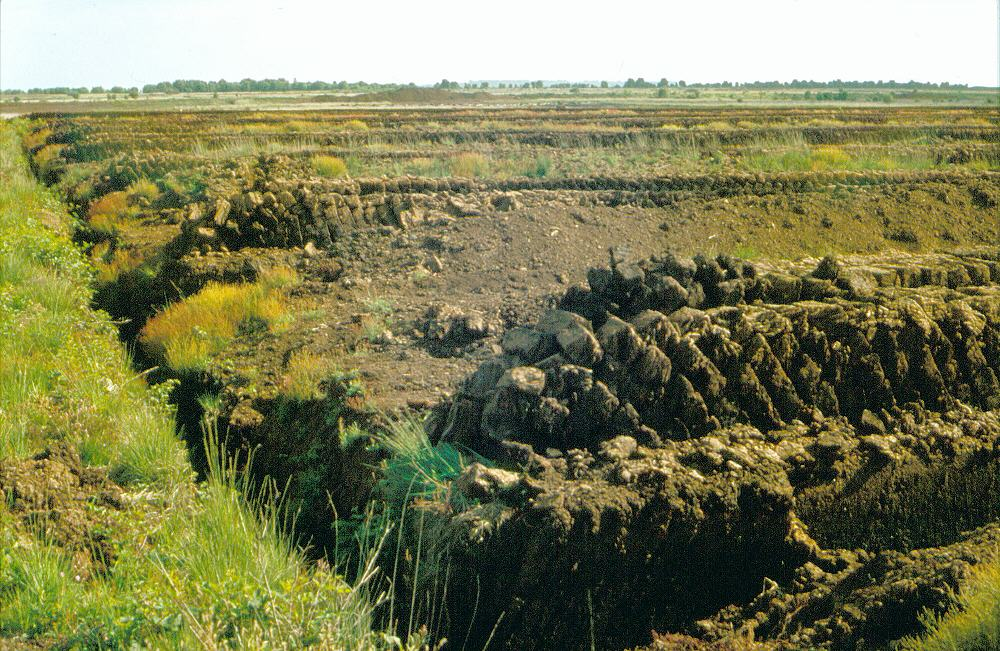 Mechanic peat digging, Saterland, Germany